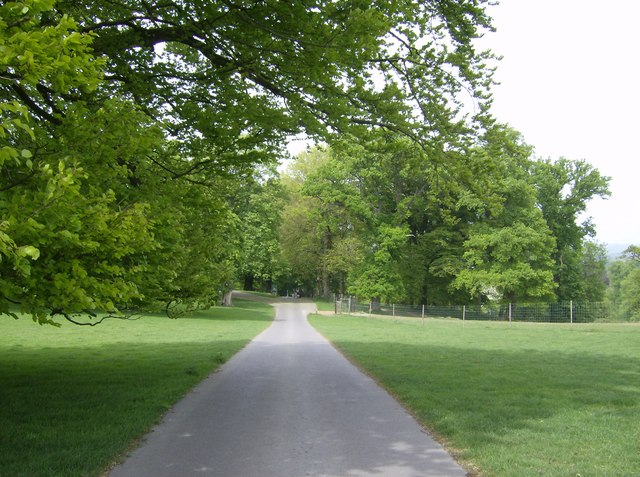 In Melbury Park Very easy walking on the footpath through the estate. With extensive parkland views.